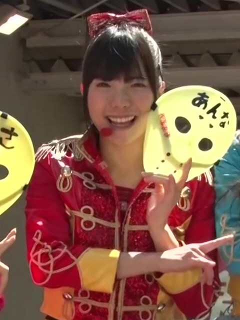 開店! SIRのパチスキ 第41話（アビバ綱島樽町店 神田ジャンボ プレサスpart2）23m45s 立花あんな